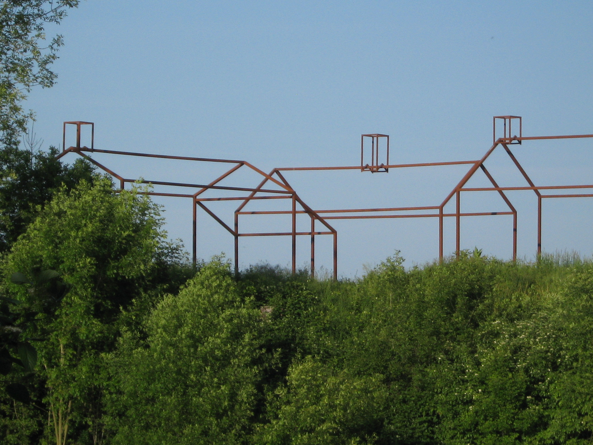 "Ghost Houses" commemorating the Willamette Mission at Willamette Mission State Park, Wheatland, Oregon, United States